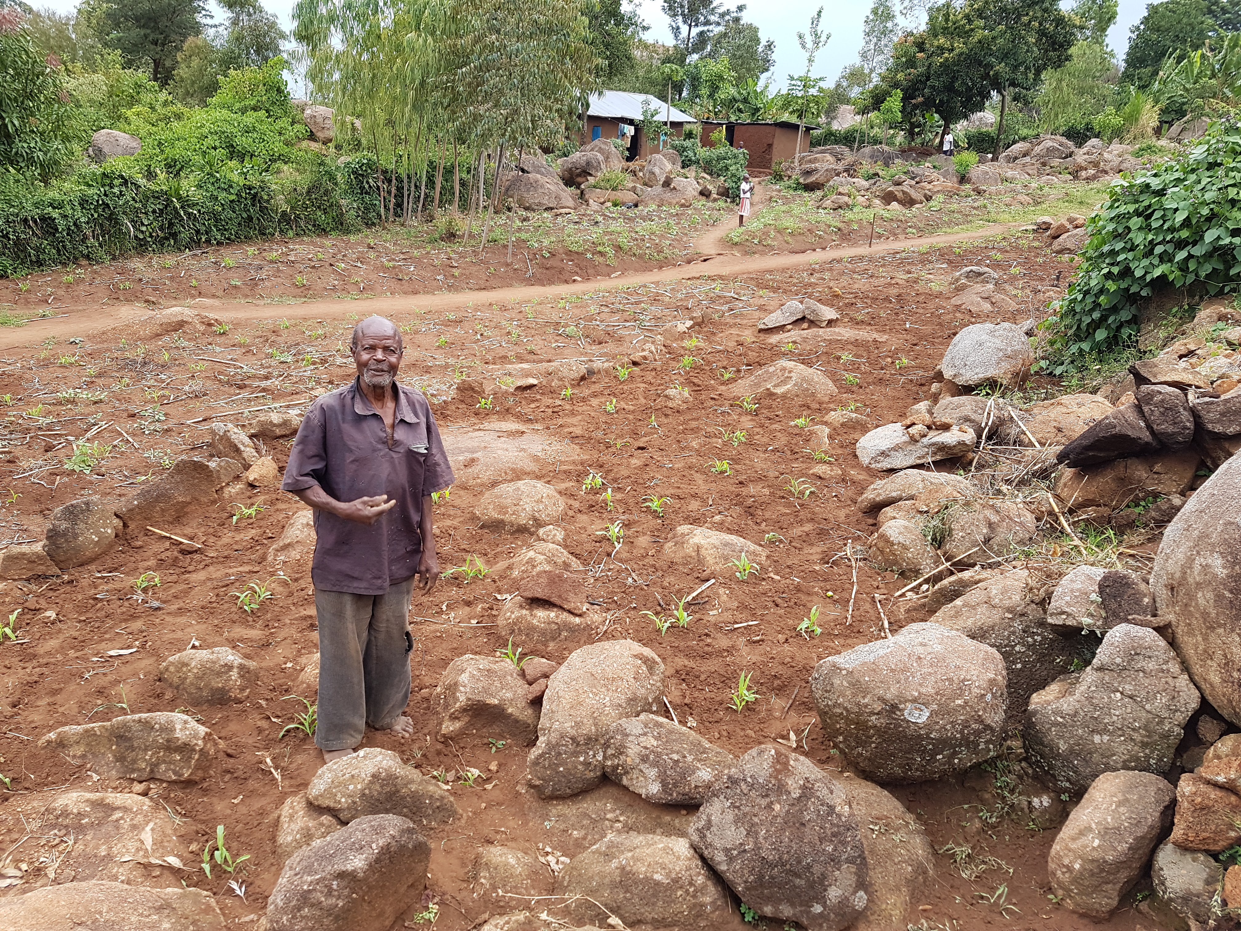 Subsistence farming between rocks This is an image with the theme "Africa on the Move or Transport" from: Kenya